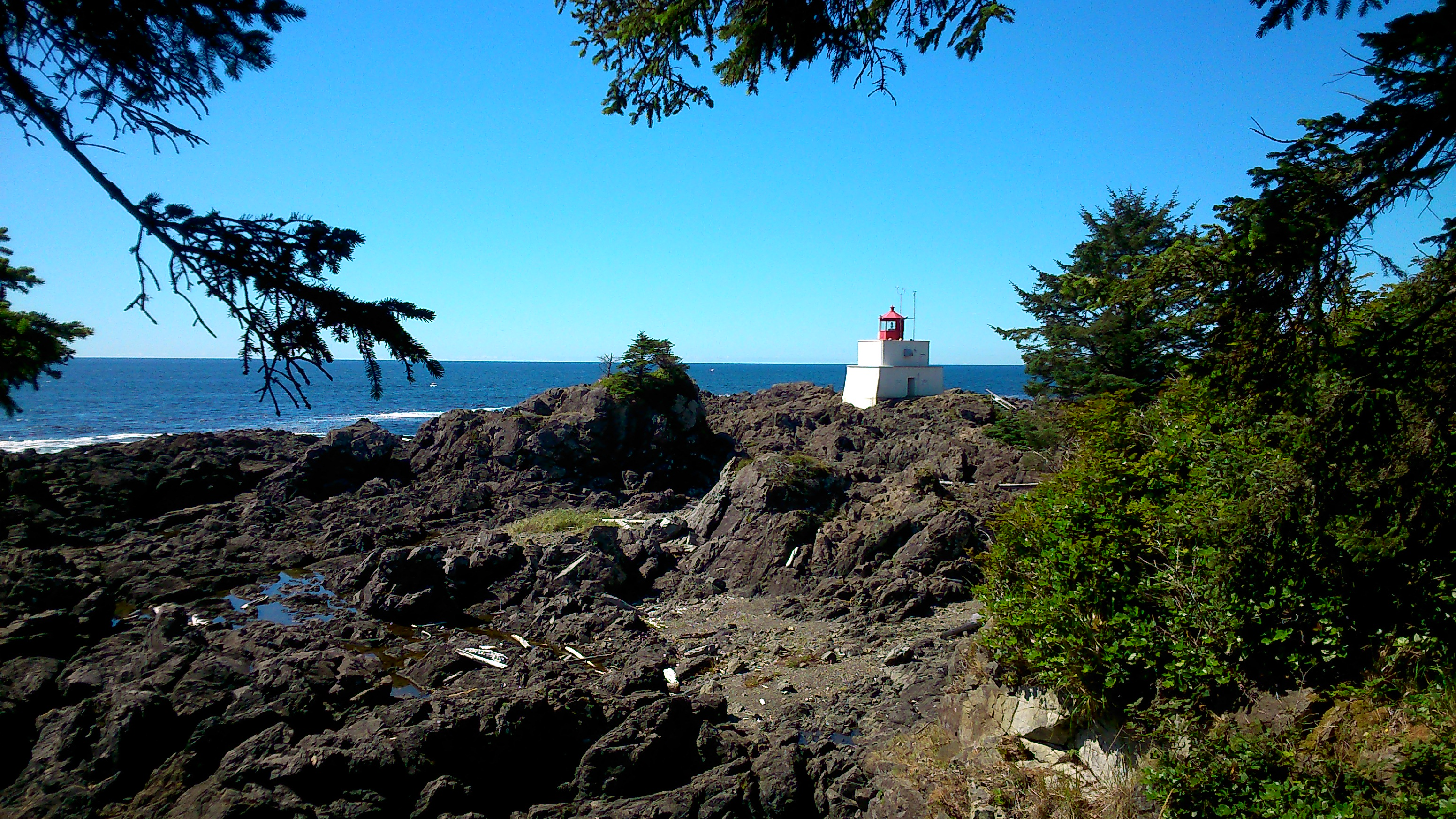 a short and squat white and red lighthouse on a rocky headland